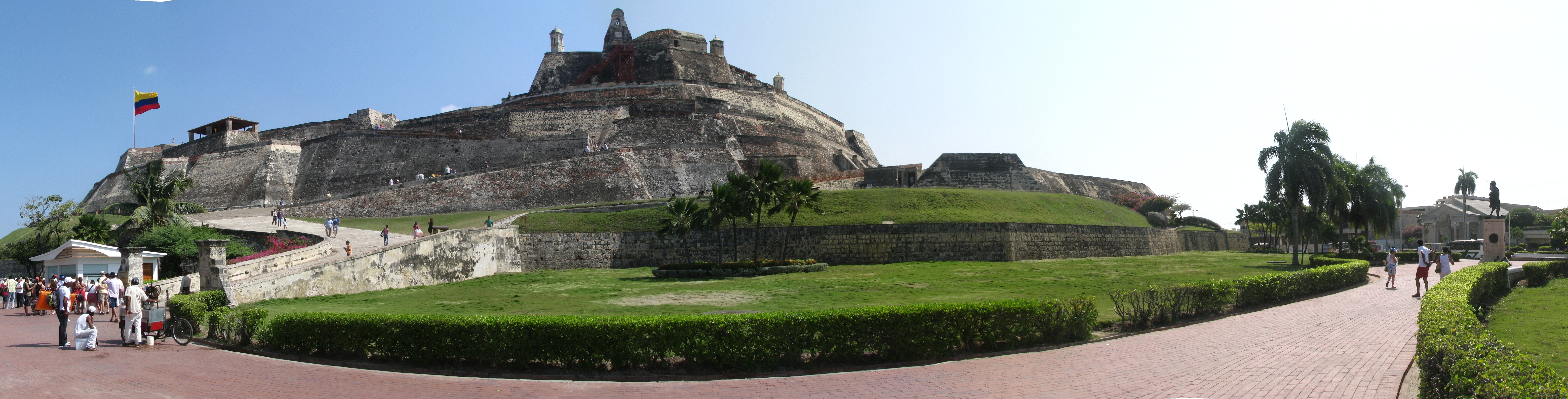 Castillo de San Felipe de Barajas in Cartagena de Indias, Bolivar, Colombia